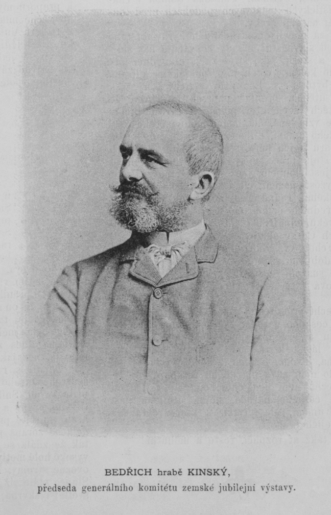 Portrait of Bedřich Karel Kinský (1834-1899), Czech nobleman and politician.